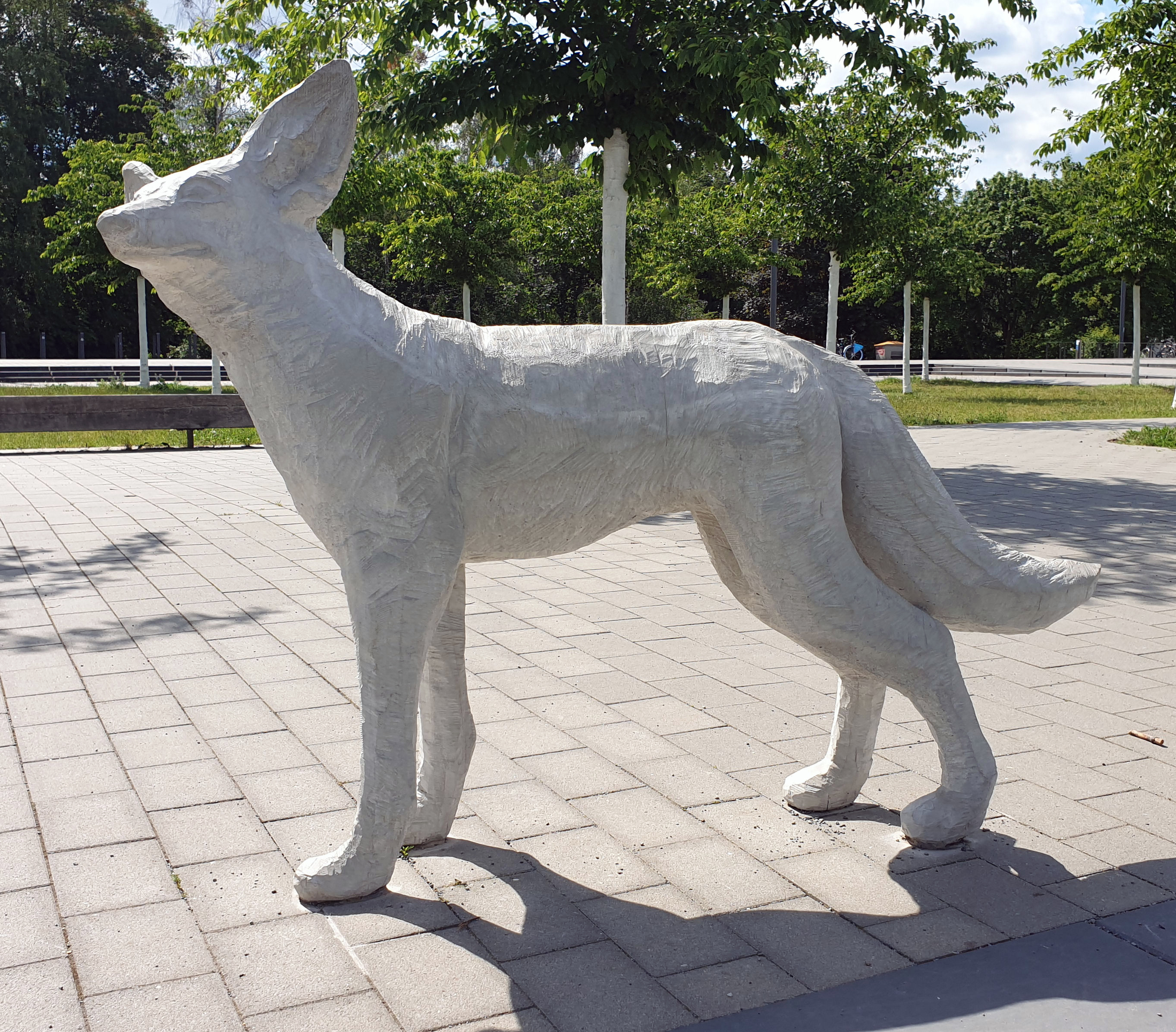 Sculpture,"Kojote" by Sebastian Hertrich, 2018, Fabeckstraße 25, Berlin-Dahlem, Germany